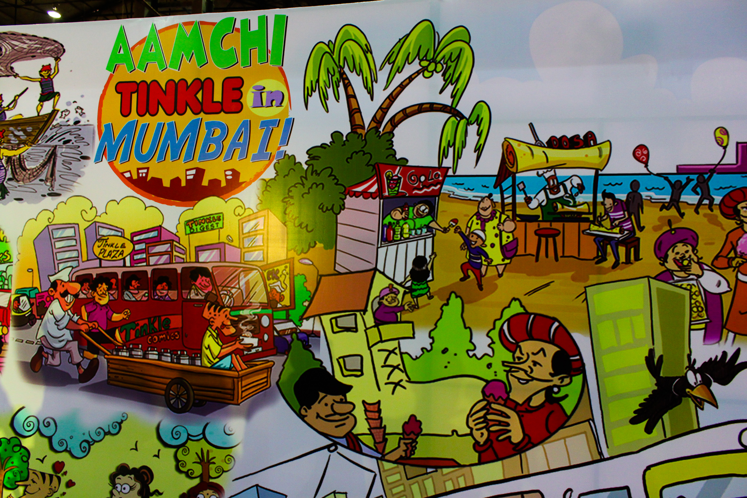 Good old Tinkle had a stall as well Mumbai Film and Comic Con 2014.